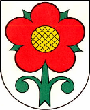 Blazon of Güttingen, Canton of Thurgau, SwitzerlandEsperanto: Blazono de Güttingen, Kantono Turgovio, Svislando